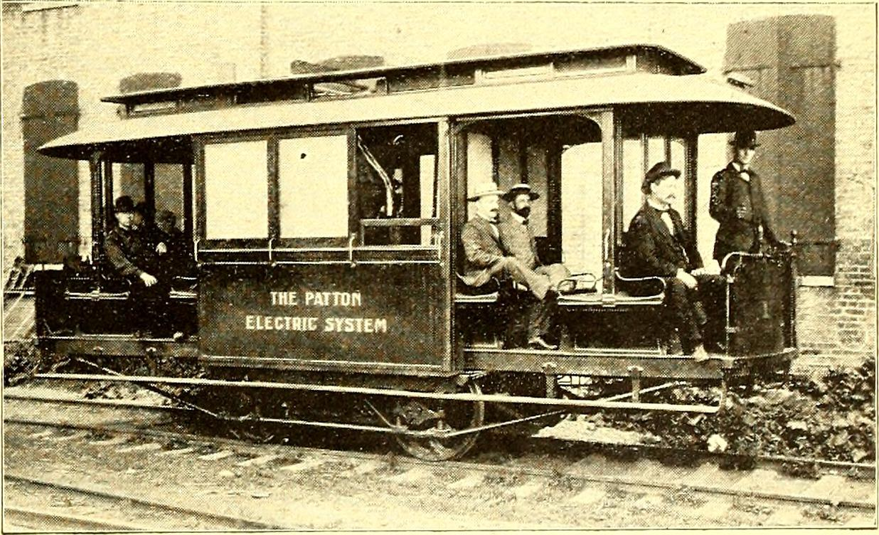 Title: The Street railway journal Year: 1884 (1880s) Authors: Subjects: Street-railroads Electric railroads Transportation Publisher: New York : McGraw Pub. Co. Text Appearing Before Image: ALSO THE BLAKISTONEAutomatic Fender and Wheel Guard, APPROVED BY SPECIAL MUNICIPAL COMMISSIONS. CORRESPONDENCE SOLICITED. As a Feeder for Trolley Lines FOR NIGHTWORK FOR LONG DISTANCE WORK For service where, because of Operating Ex-pense, the Trolley equipment is unsatisfactory,the Patton Motor is particularly adapted. Text Appearing After Image: IT REQUIRES Items of expense savedby the use of the PattonElectric System. / No Poles,No Wires,No Power House,No Bonding of Rails.No Special Construction,No Power House Force,No Linemen,No Engineers,V No Skilled Mechanics. It requires only ordinary Track. We guarantee to do street car service (under average conditions) for less thantwo cents per car mile for power. Correspondence Solicited. PATTON flOTOR CO., Chicago, 111. Address all communications to L. S. STEINITZ, 340 and 342 Dearborn St. 140 STREET RAILWAY JOURNAL. (Vol. XIV. No. i.